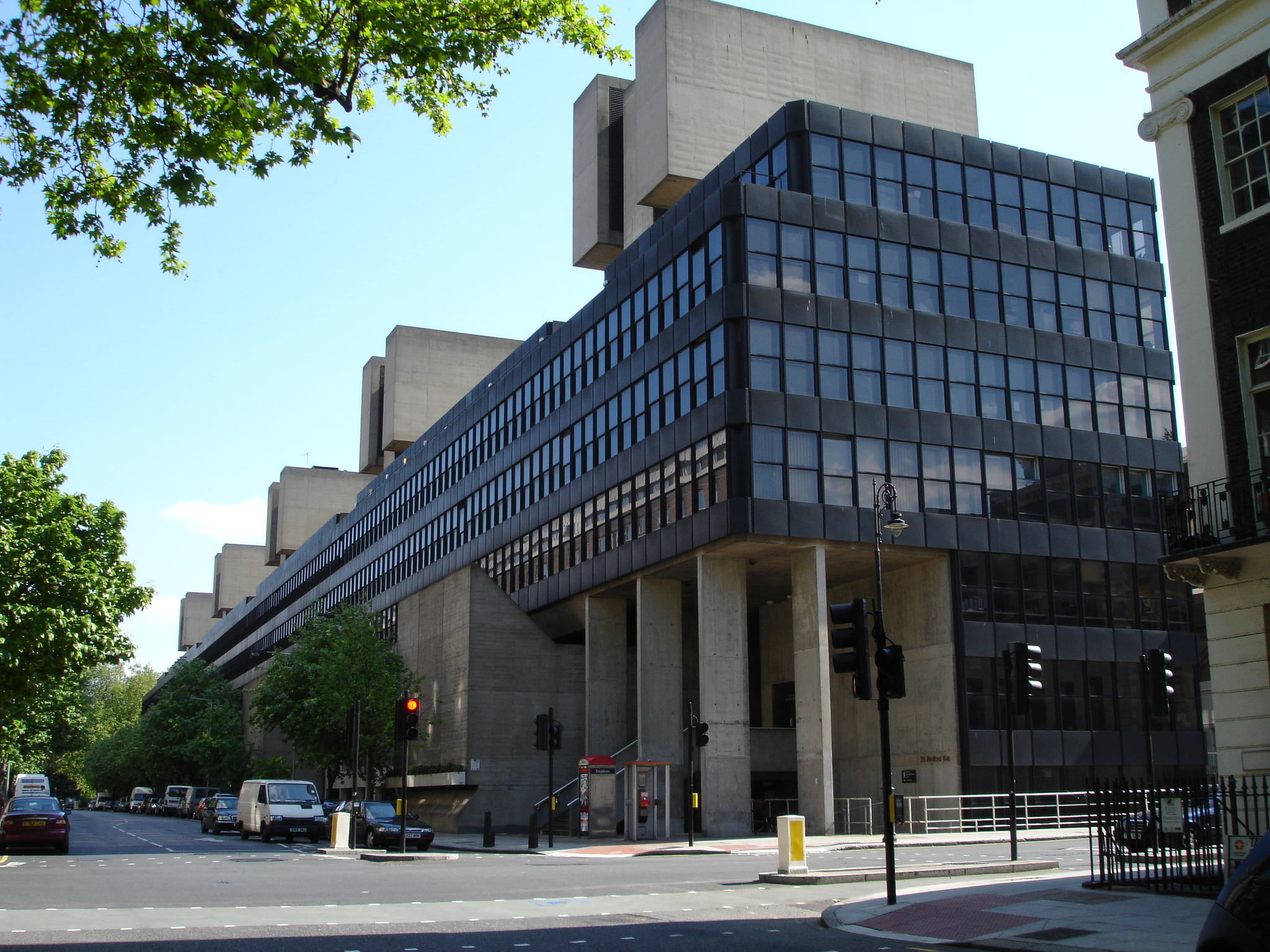 Bedford Way building near Russell Square. The Departments of Geography, Psychology and Language at University College London.